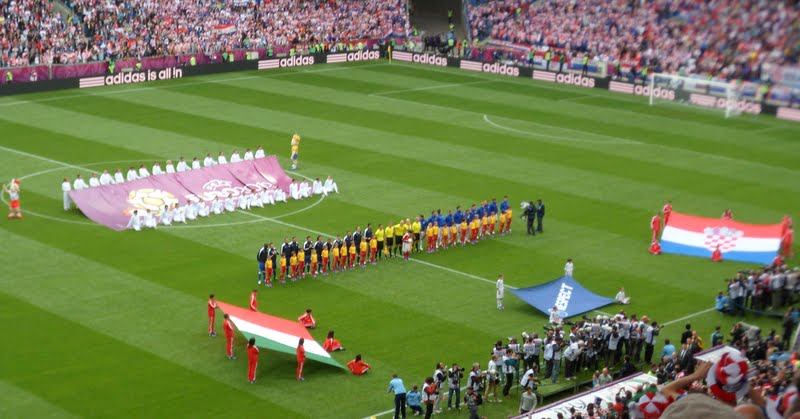 Match Italy vs Croatia in Poznań at Euro 2012